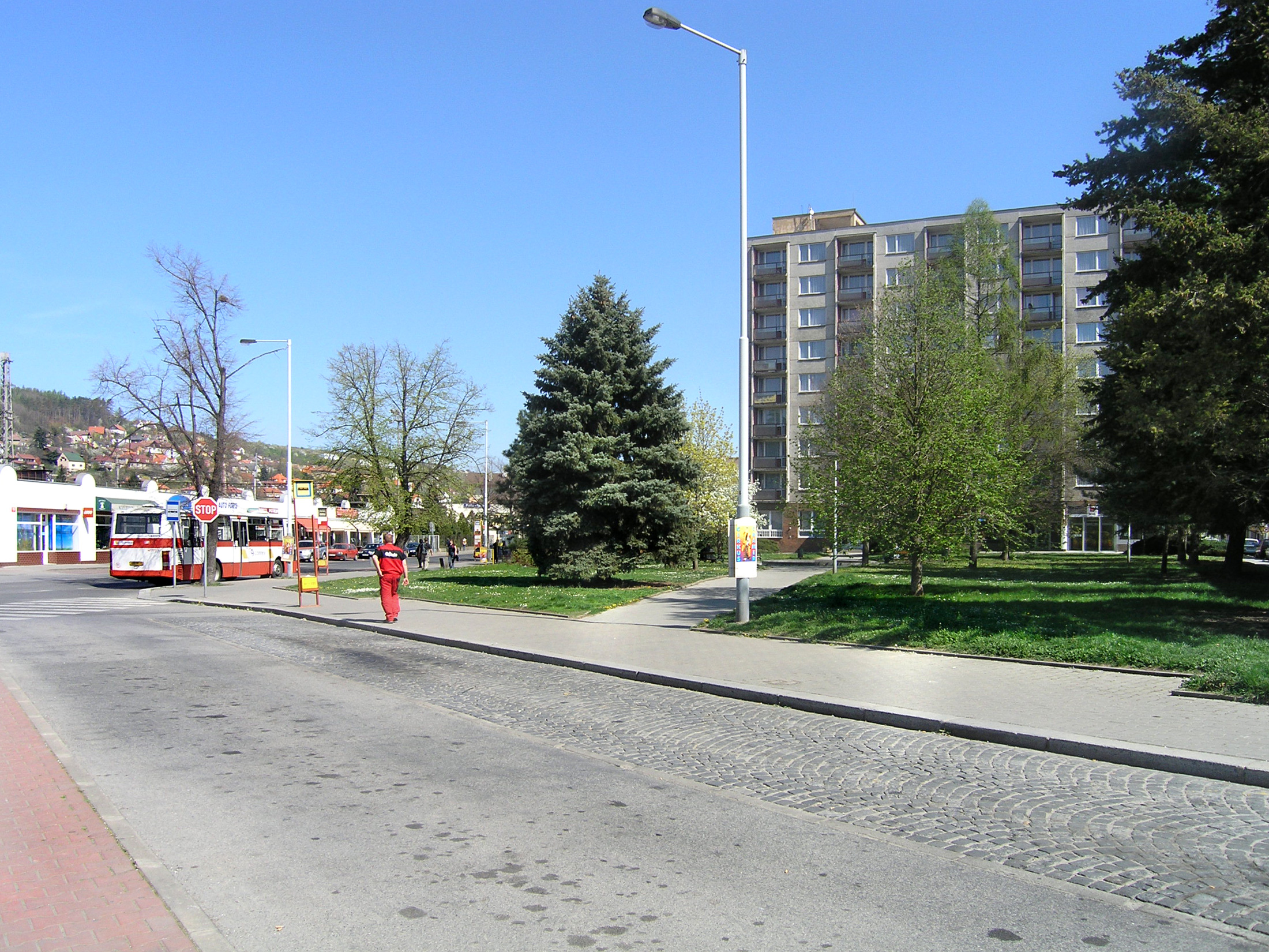 Bus loop at Radotín, Prague